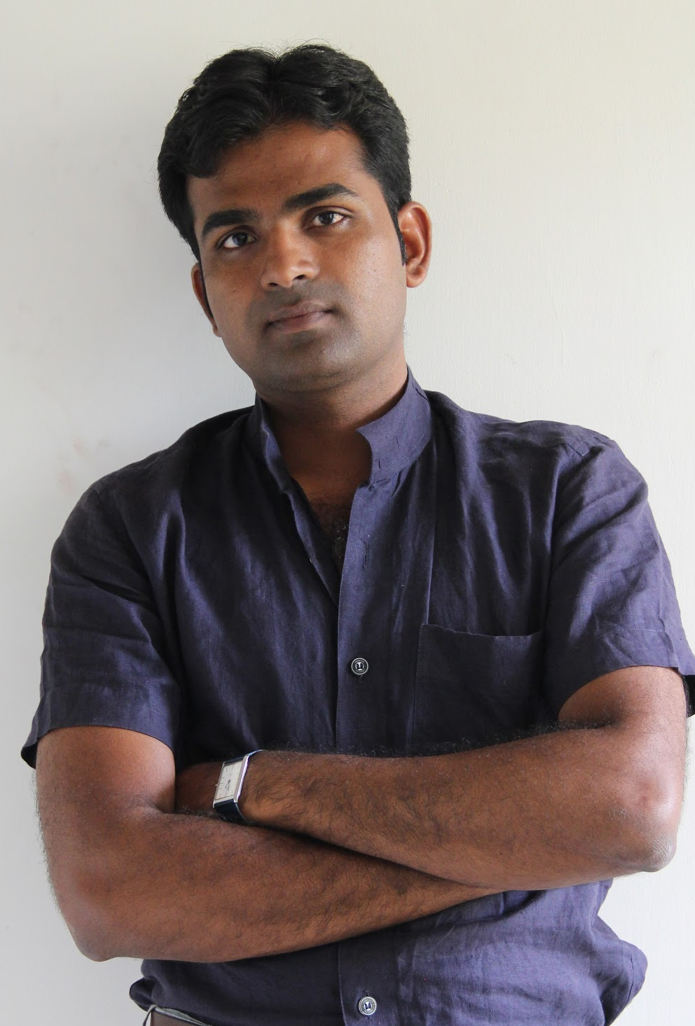 Shashikant dhotre photograph